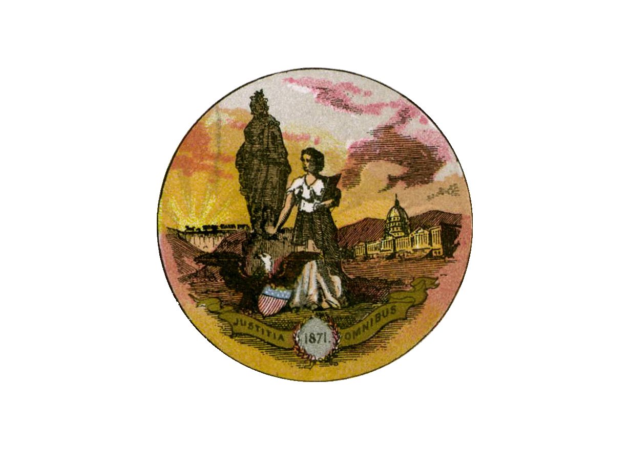 Flag of the District of Columbia (1888)